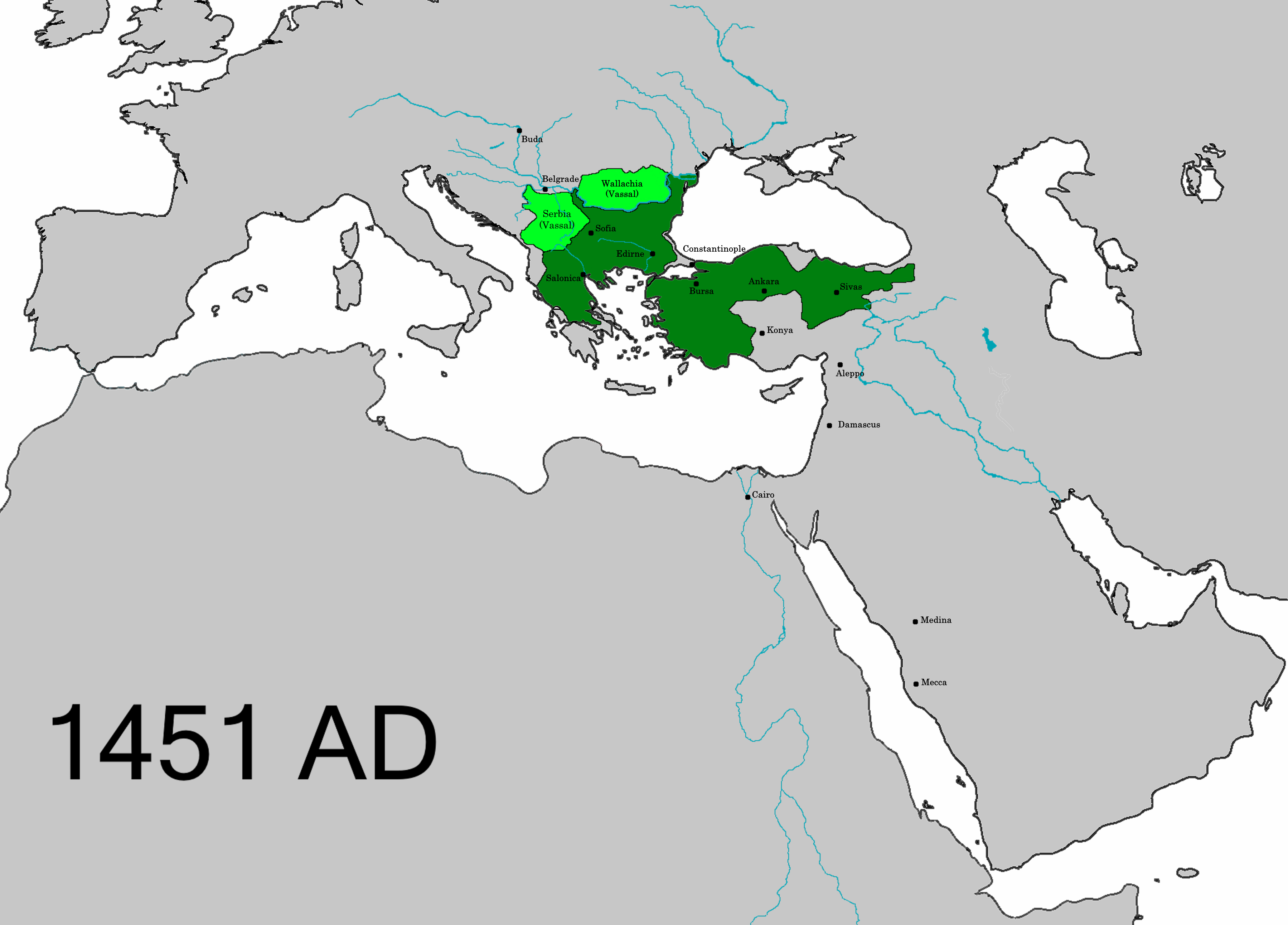 A depiction of the Ottoman Empire and its dependencies in 1451